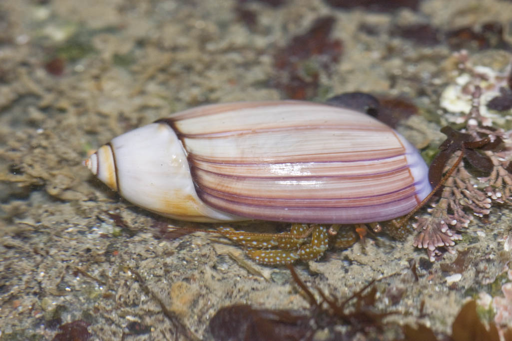 Pagurus granosimanus, Grainyhand Hermit in Olivella biplicata shell. Estero Bluffs State Park, San Luis Obispo Co., CA.